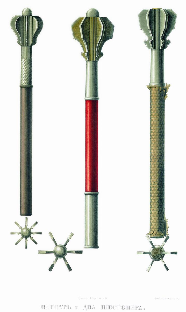 Flanged maces (pernath and two shestopiors).